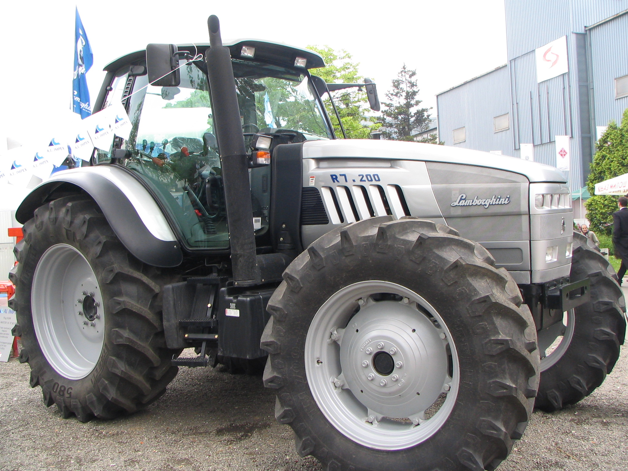 Lambourgini tractor, Agricultural fair Novi Sad, Serbia (photo: Mihailo Grbić)